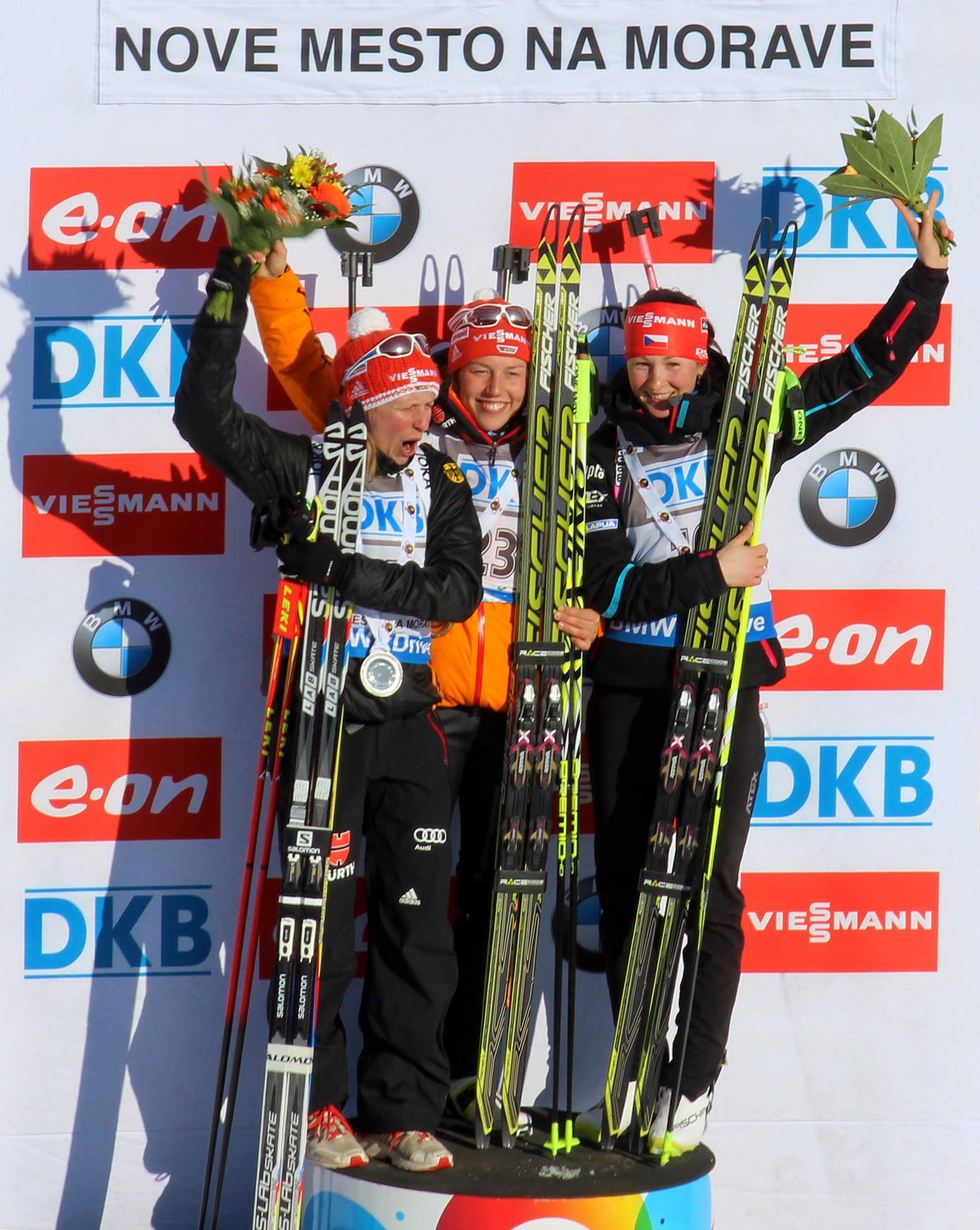 Biathlon World Cup 2015 in Nové Město, Czech Republic – podium after sprint women From left to the right / Zleva: Franziska Hildebrand, Laura Dahlmeier and Veronika Vítková